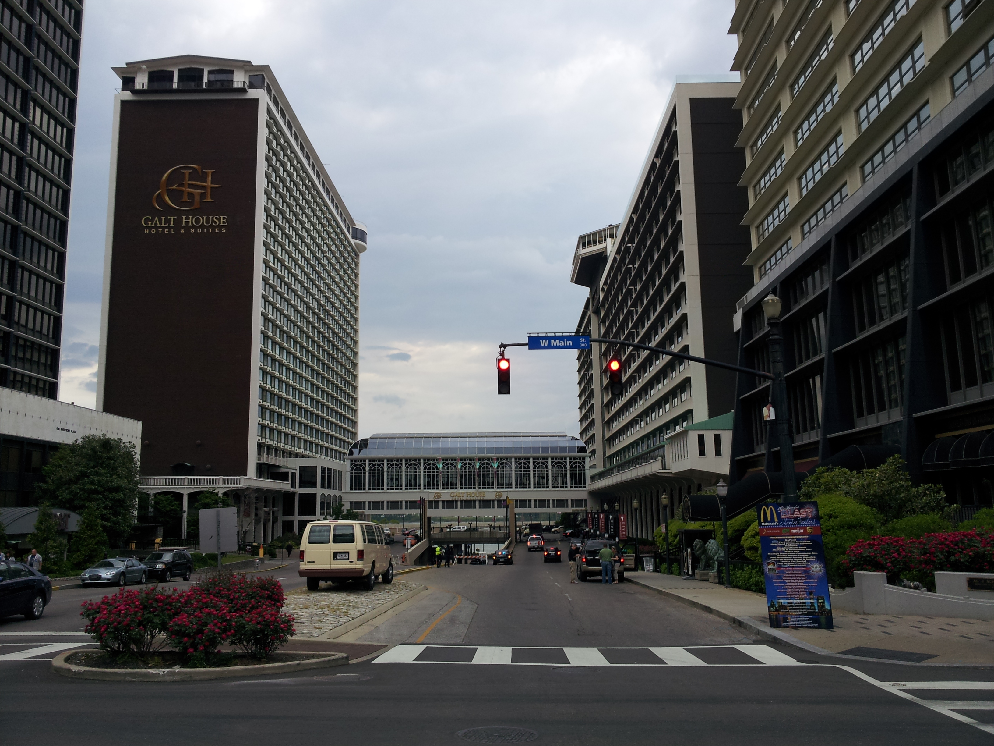 The Galt House in Downtown Louisville.